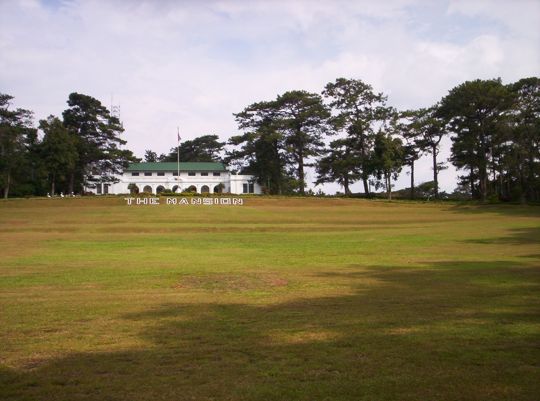 The Mansion - Official summer residence of the President of the Philippines.